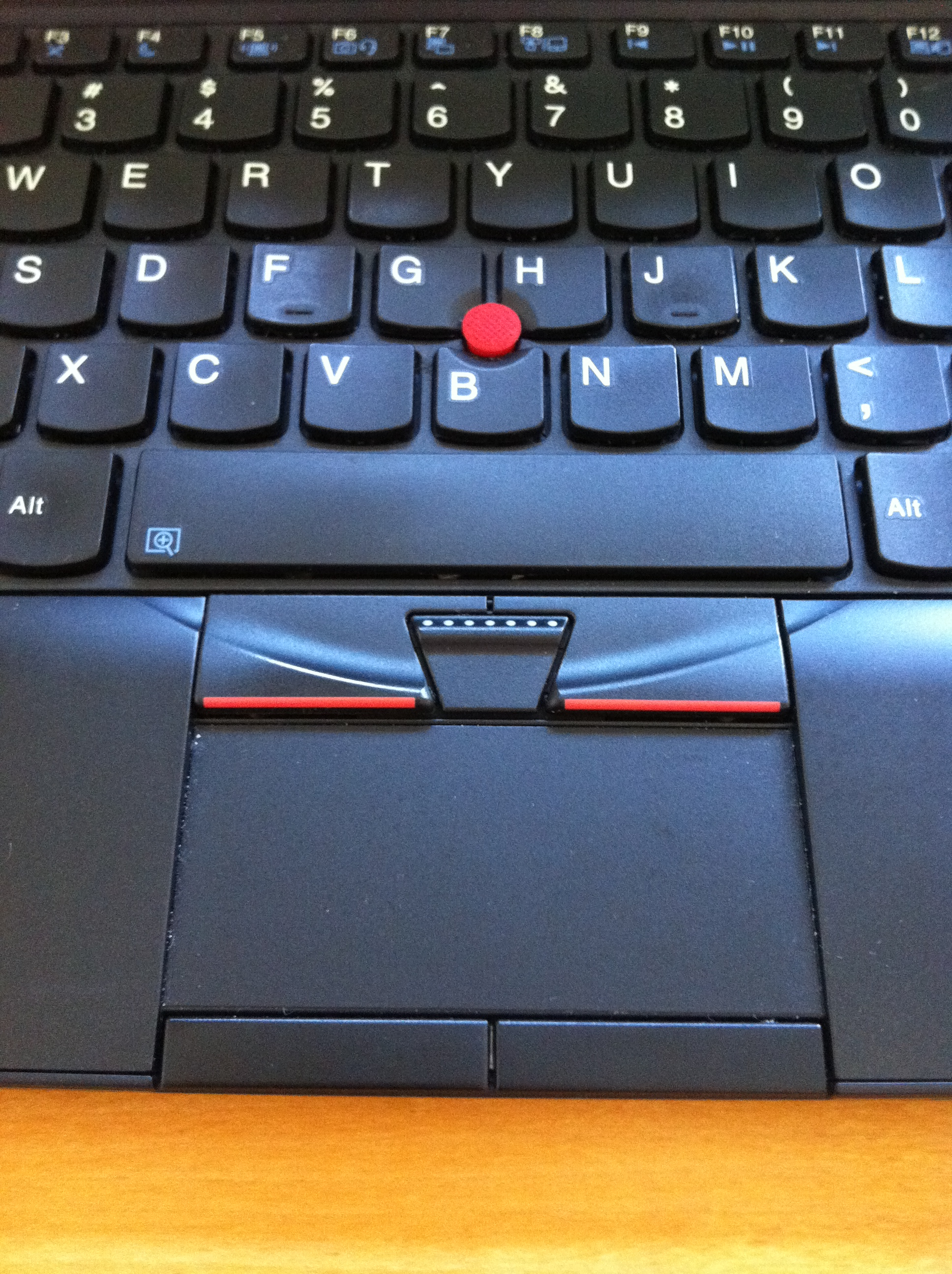 The ThinkPad x120e trackpad and trackpoint